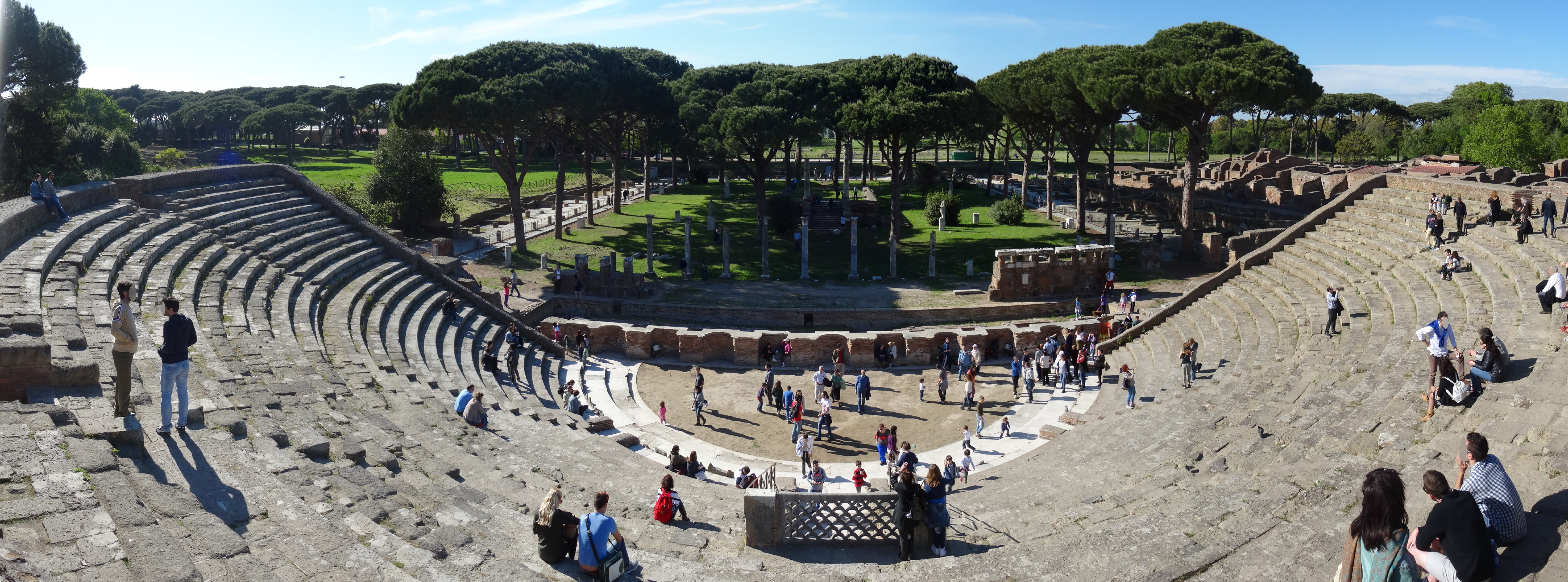 Panoramica Teatro di Ostia